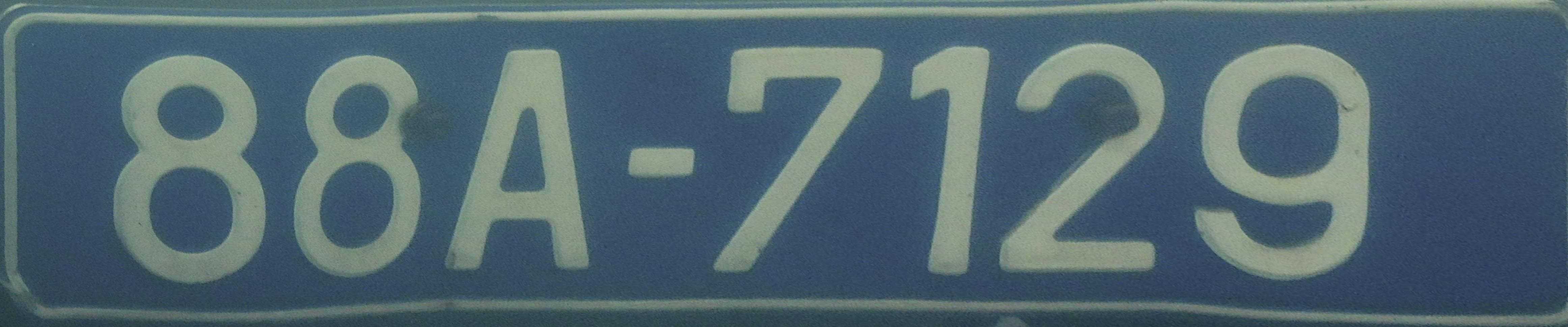 Vietnamese plate for President's cars, Central Government's cars or Diplomat's cars. The colour used is blue with white.